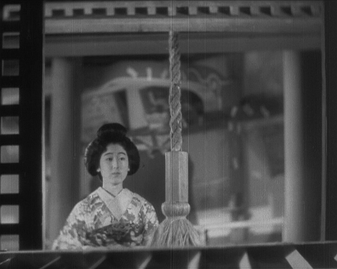 Ranko Hanai in Tange Sazen yowa : Hyakuman-ryō no tsubo (丹下左膳余話 百萬両の壺) directed by Sadao Yamanaka - 1935